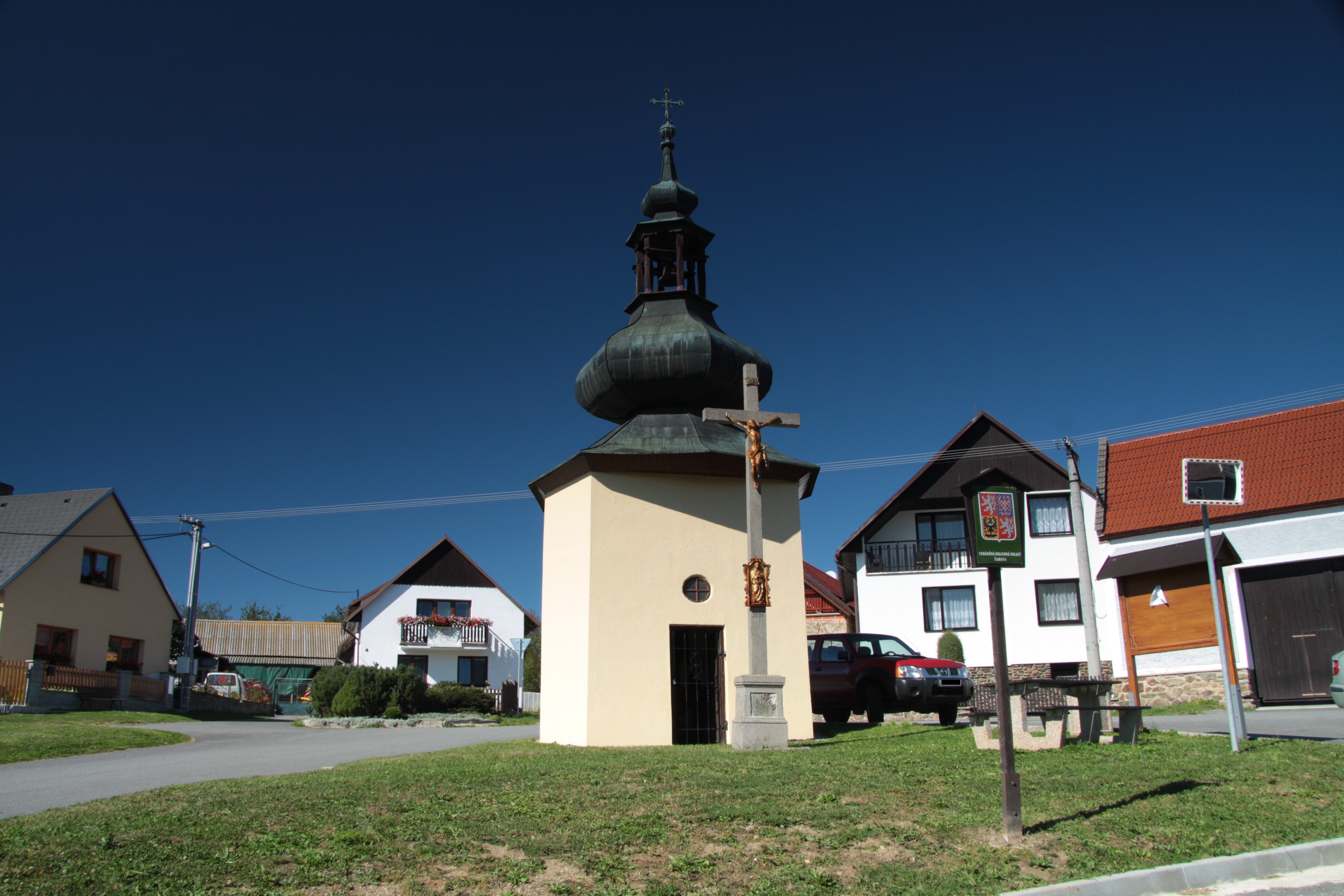 Chapel in Kratušín village in Prachatice District in the Czech Republic - Google Maps - Google Earth